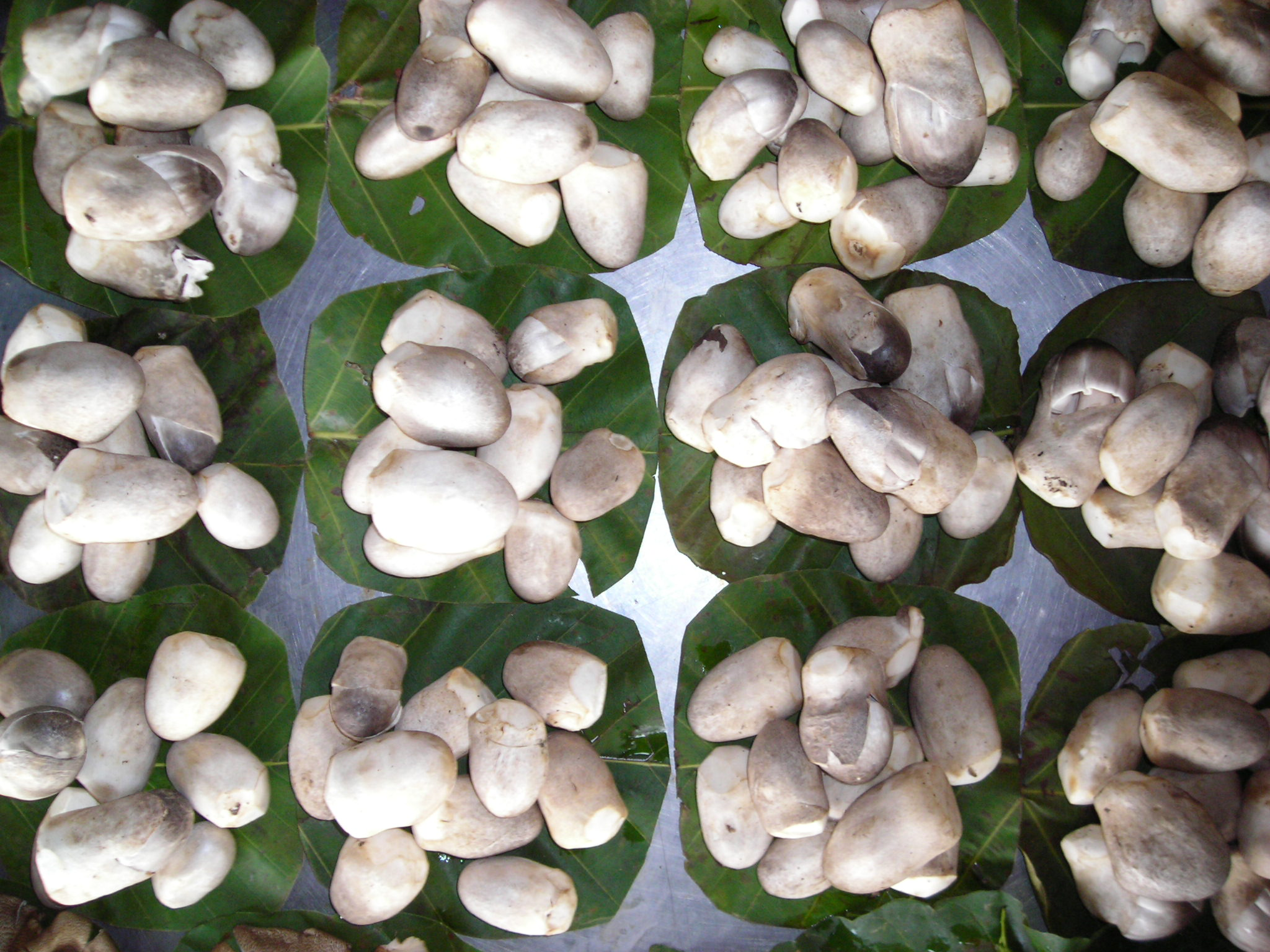 Het Fang (Straw Mushrooms) of Thailand, on display for sale (decorated with leaves)